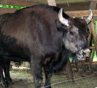 I took this picture of a Zubron in the animal reserve in Bialowieza National Park in Poland.